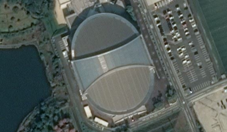 Sun Arena